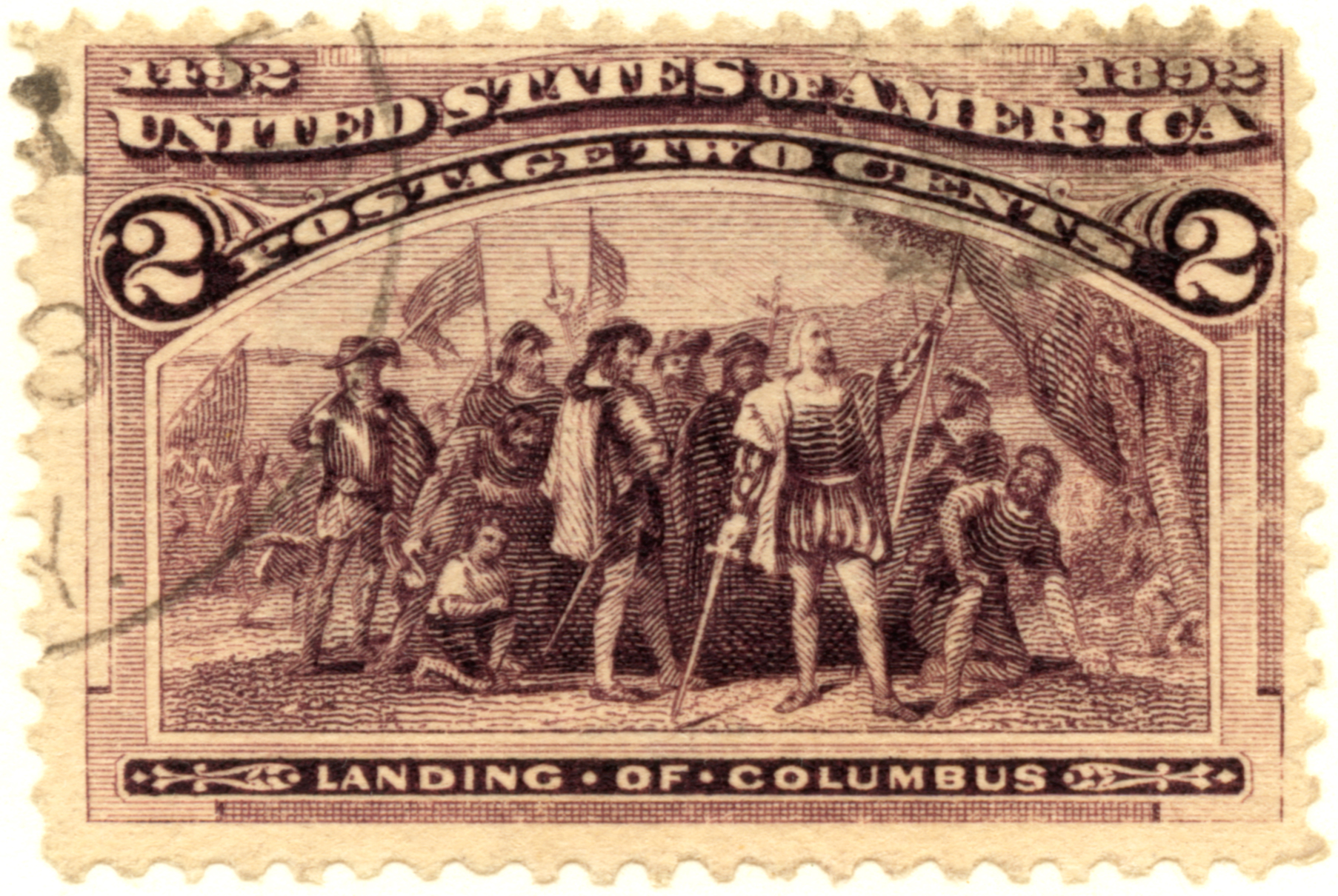 2-cent 1893 commemorative United States postage stamp, depicting the landing of Christopher Columbus. Part of the World Columbian Exposition series of 1893.